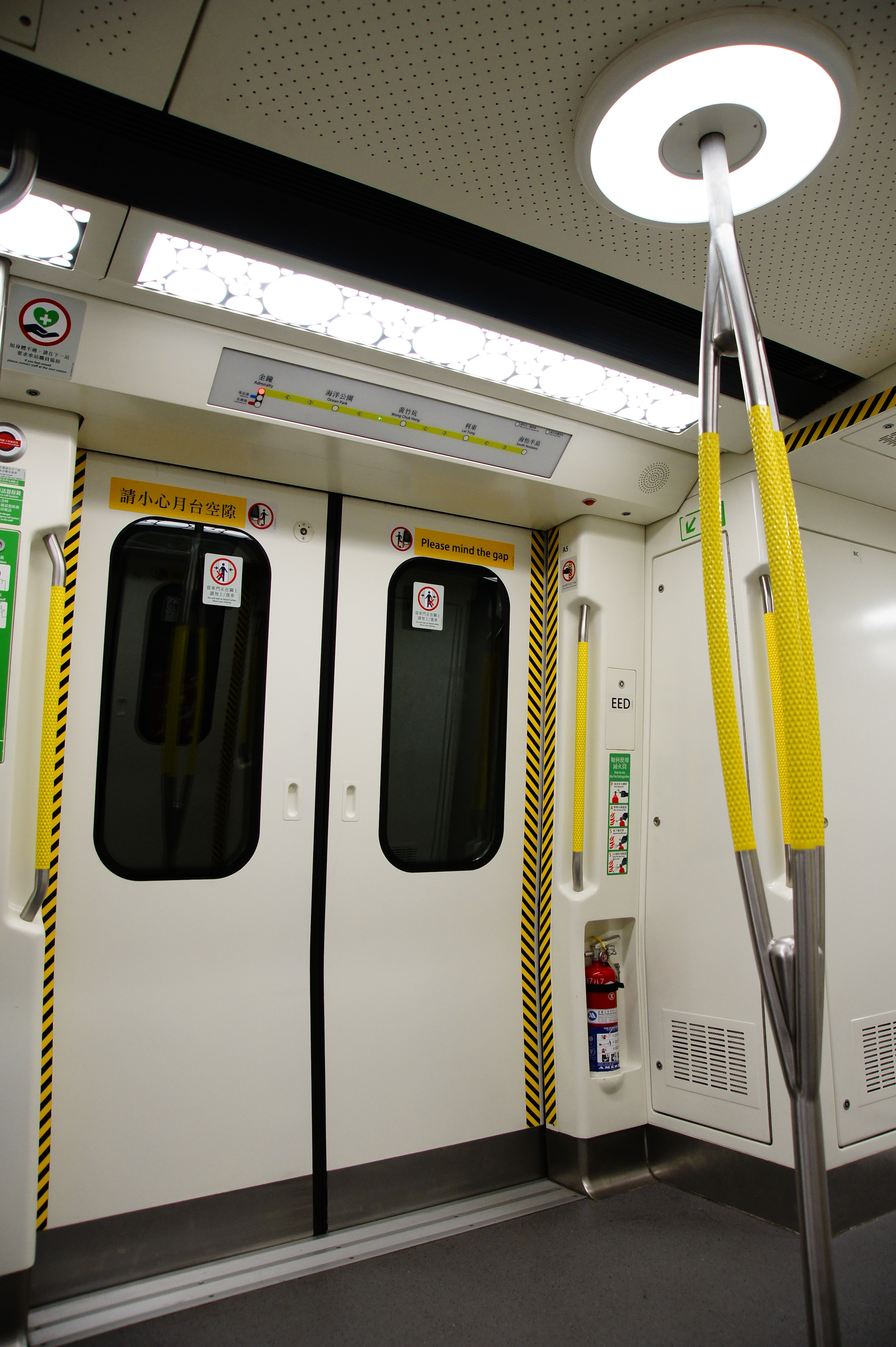 MTR South Island Line S-Train train compartment